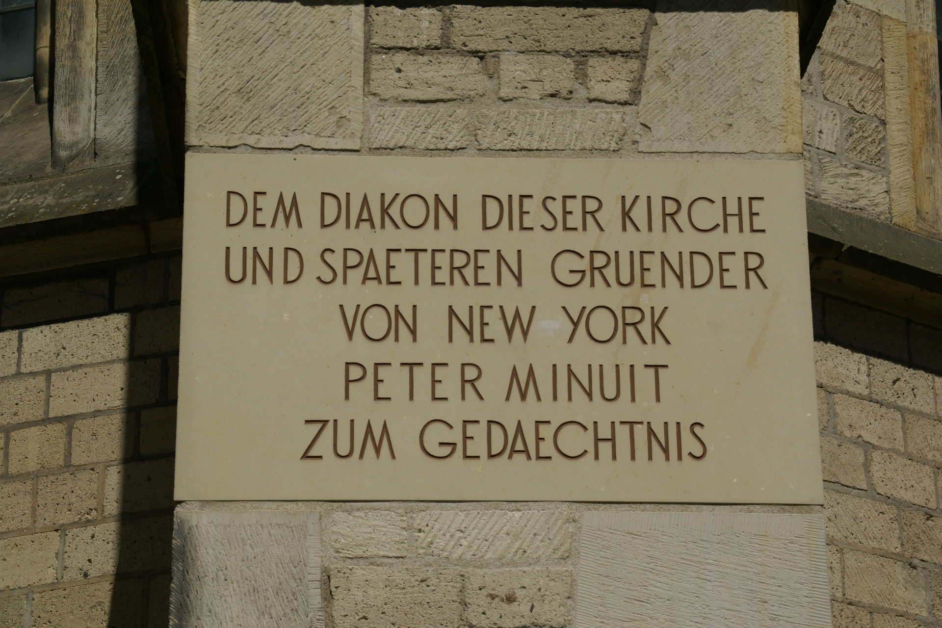 Peter Minuit Memorial Plate at Willibrordi Cathedral in Wesel, Germany - Minuit was deacon here